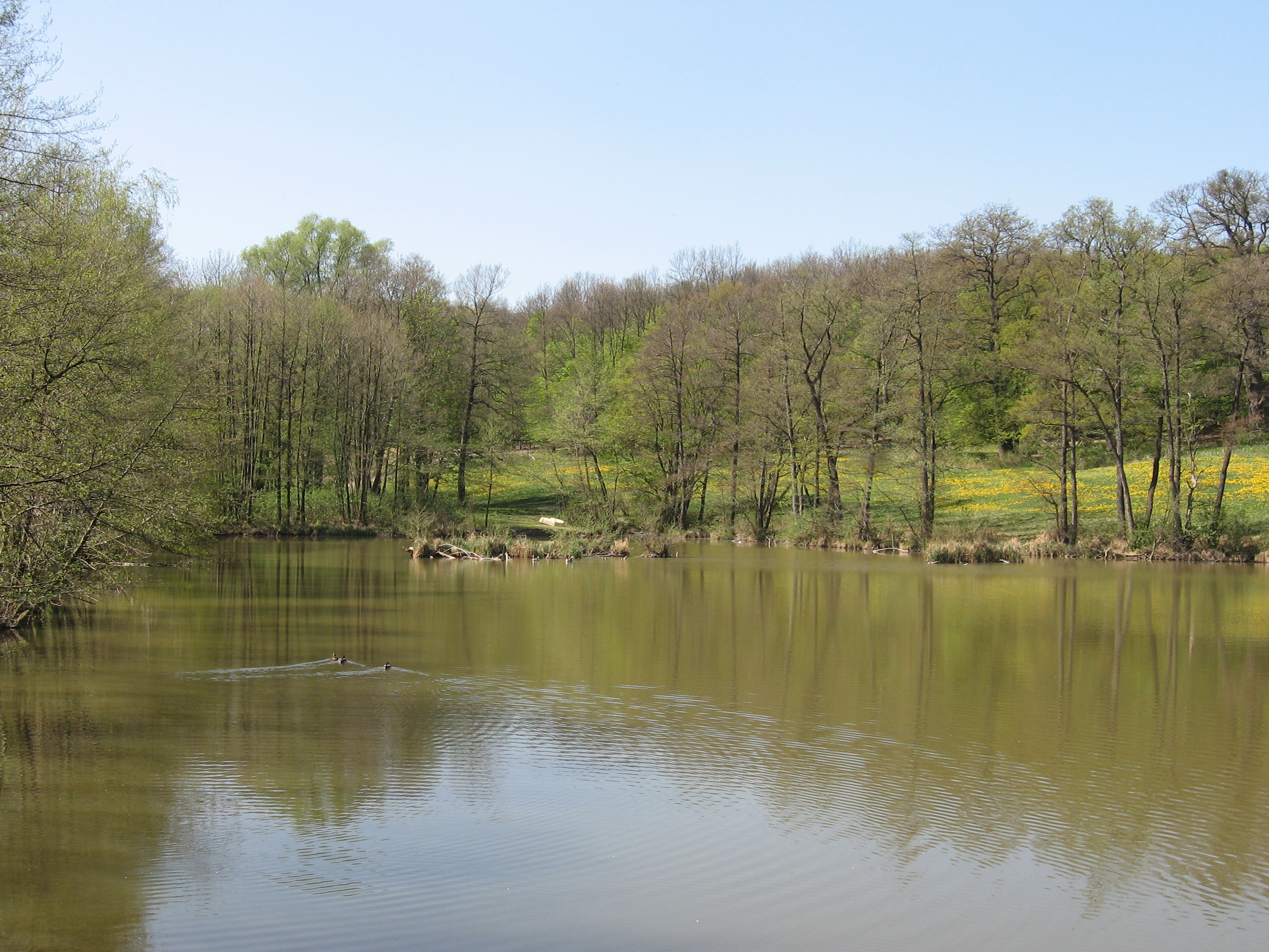 "Grünauer Teich" in wildlife preserve "Lainzer Tiergarten" Vienna, Austria